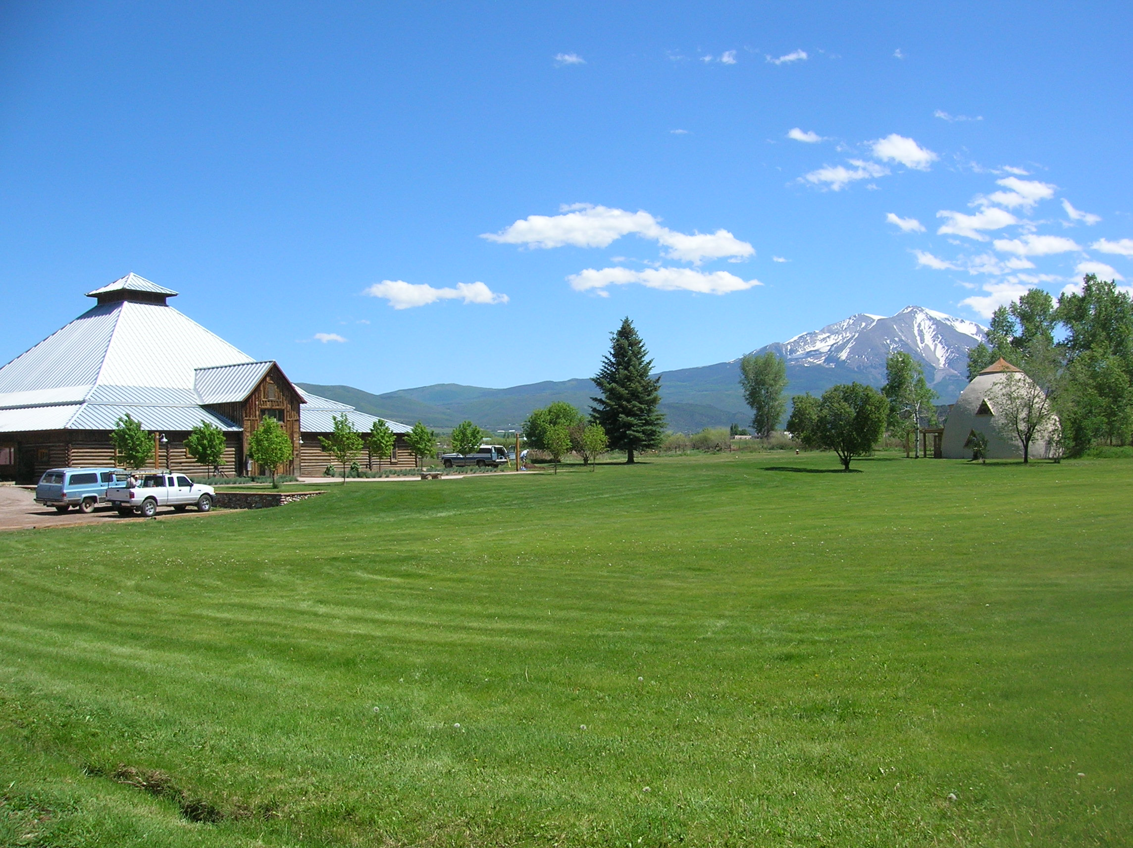 personal photo ch Graduation lawn at the Colorado Rocky Mountain School, Carbondale. The CRMS barn, constructed in 1897, is at left; the school's library, a large meeting/performance space, a computer lab, and music studios are housed within. At right is the Adobe, an art studio for painting, drawing and sculpture designed and constructed by students and faculty in the 1960s. In the background is 12,953 ft. Mt. Sopris, the major landmark in this part of the Roaring Fork Valley.